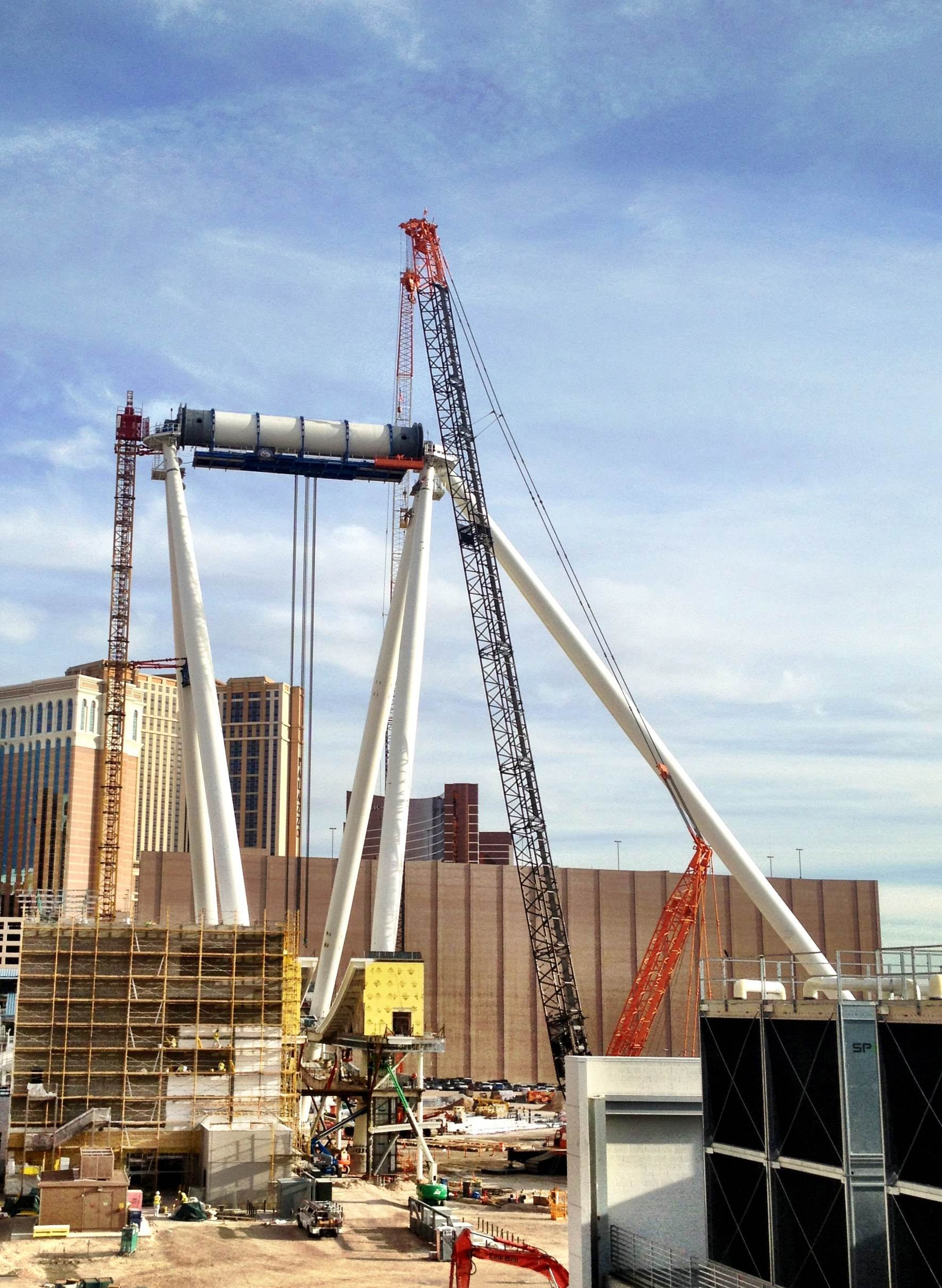 High Roller Observation Wheel under construction in Las Vegas in Mar 2013.